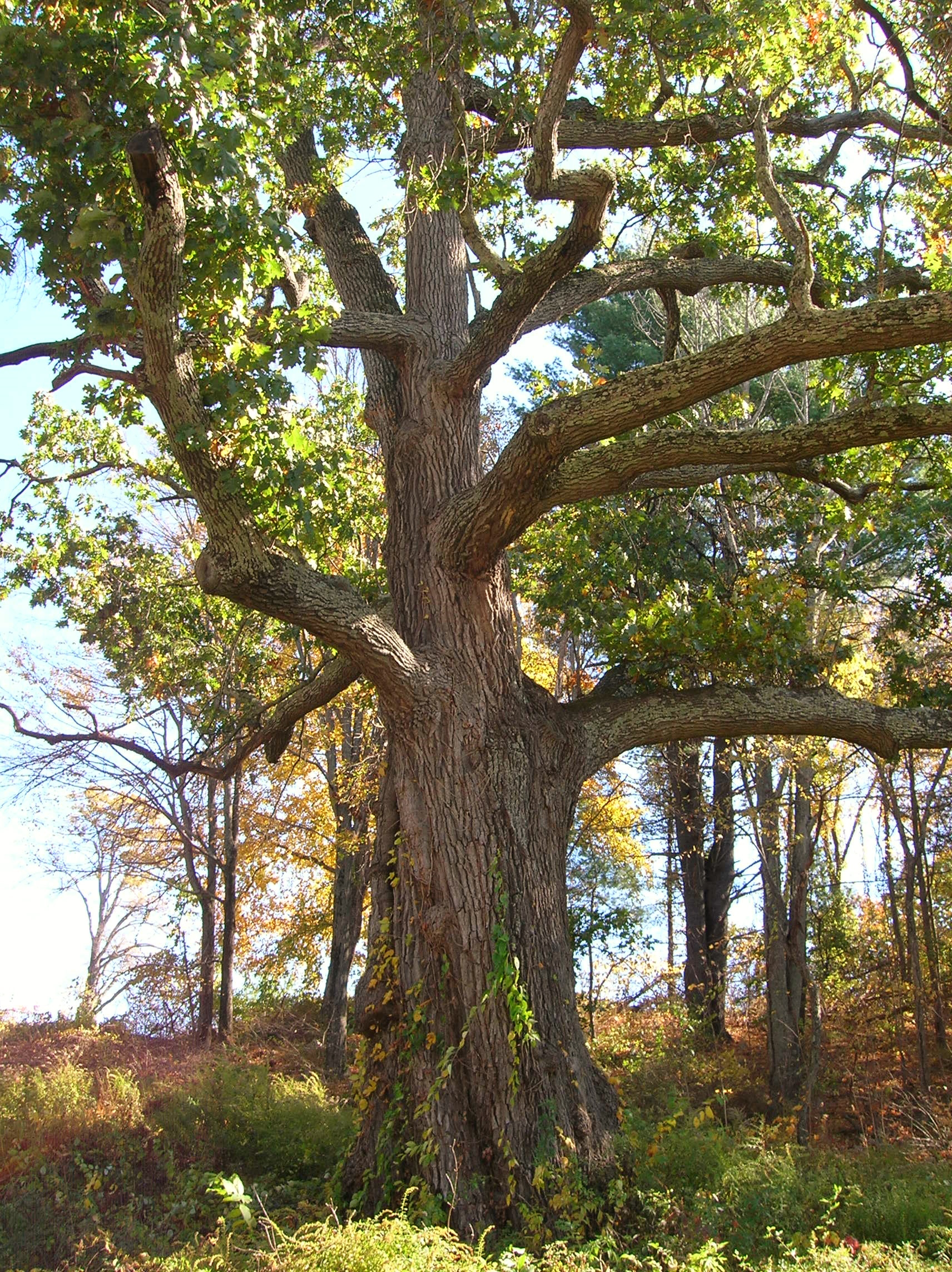 Photo of a black oak tree located in East Granby, Connecticut, taken on October 20, 2013.